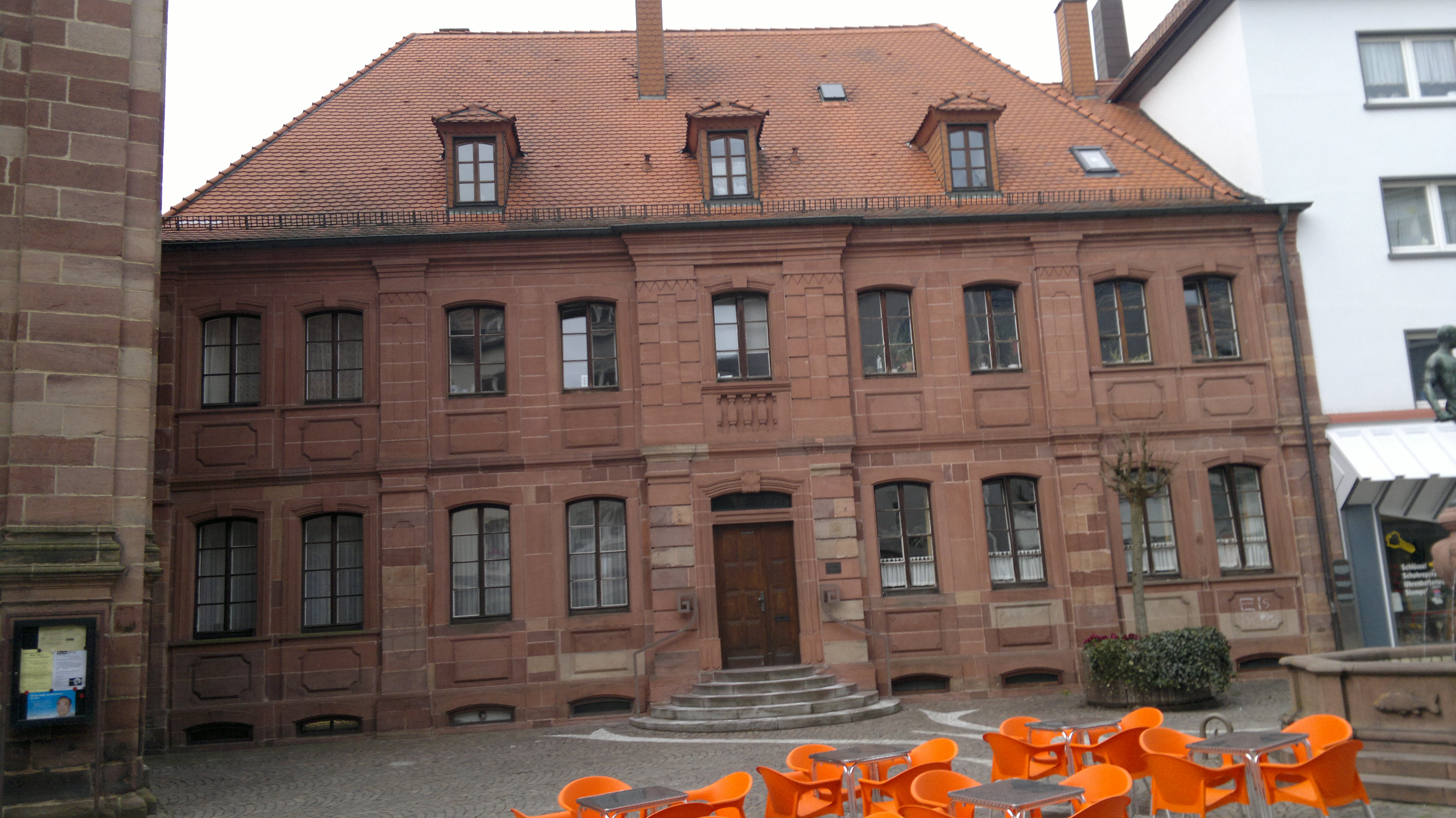 Garnisonsschule, Hauptstrasse 58 in Pirmasens